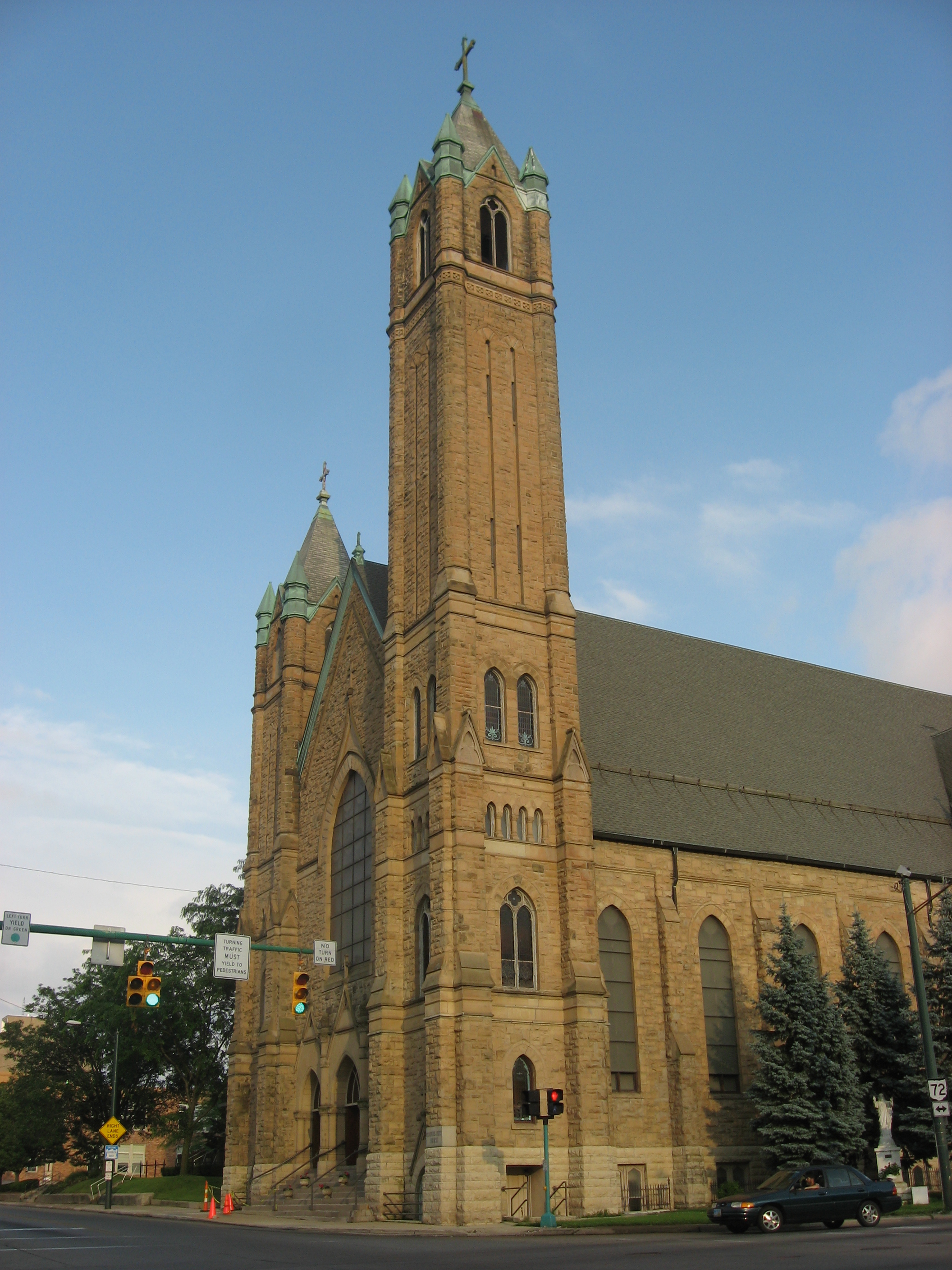 Front and western side of the tower of St. Raphael's Catholic Church, located at 225 E. High Street in Springfield, Ohio, United States. Built in 1892, it is listed on the National Register of Historic Places.